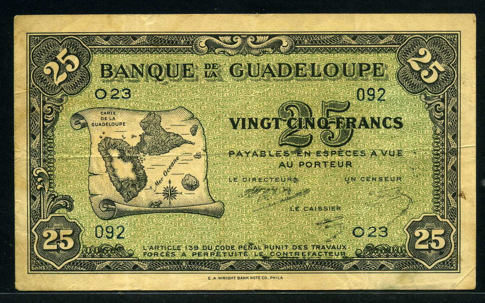 Guadeloupe 25 Francs banknote of 1942, issued by the Central Bank of Guadeloupe - Banque de la Guadeloupe.